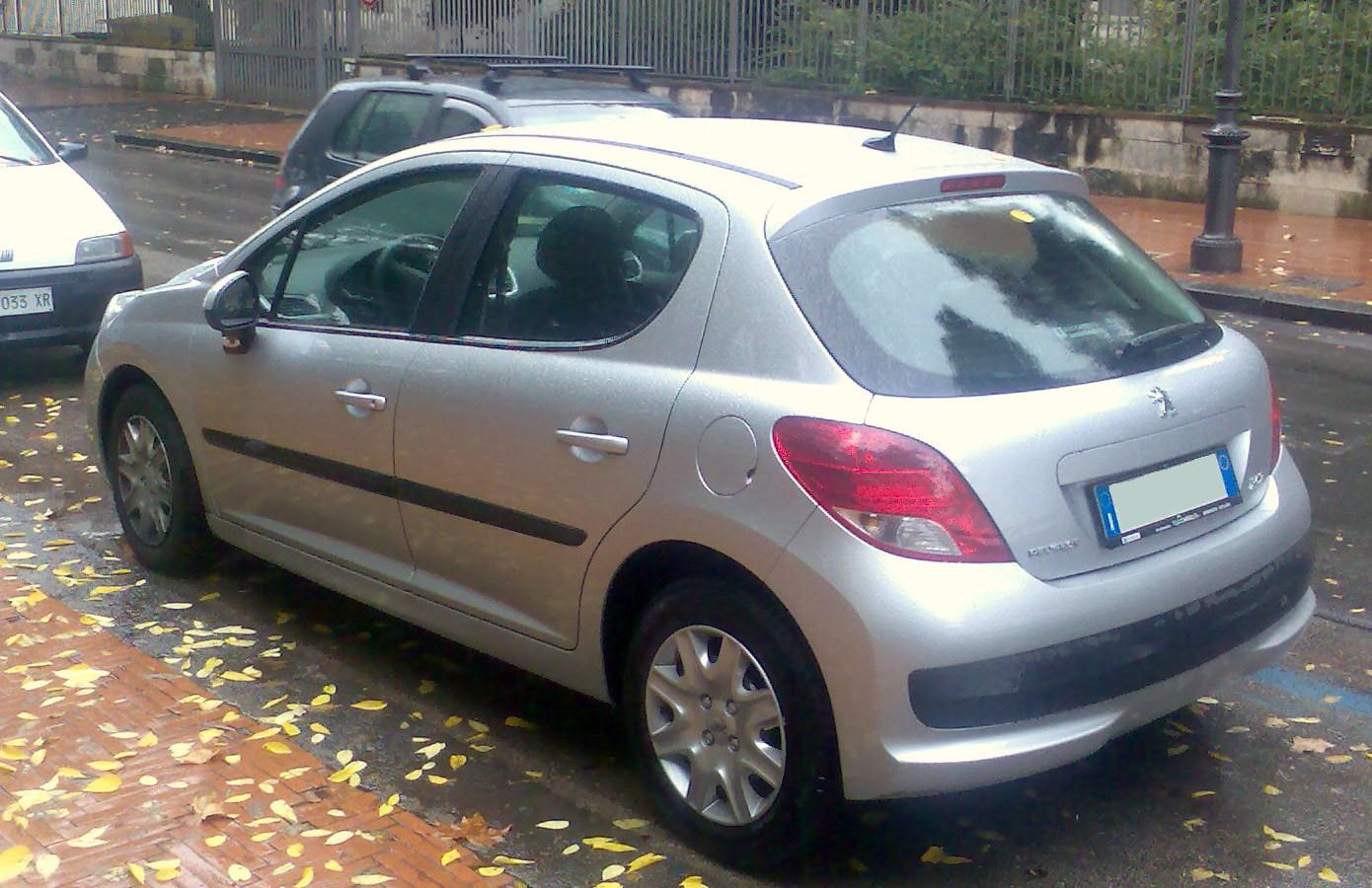 Peugeot 207 restyling